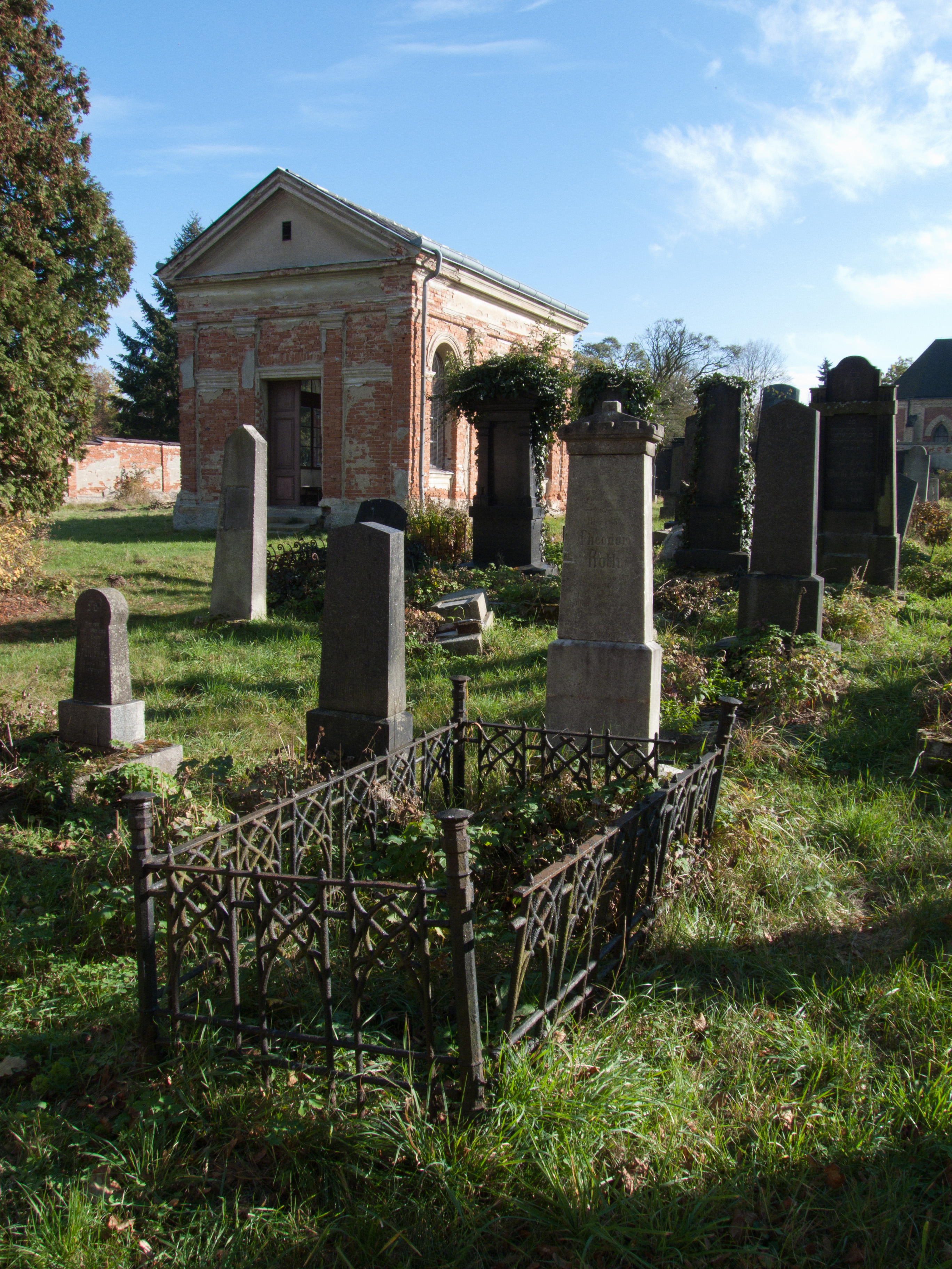 Gravestones and ceremonial hall in the Jewish cemetery in the town of Český Krumlov, South Bohemian Region, Czech Republic